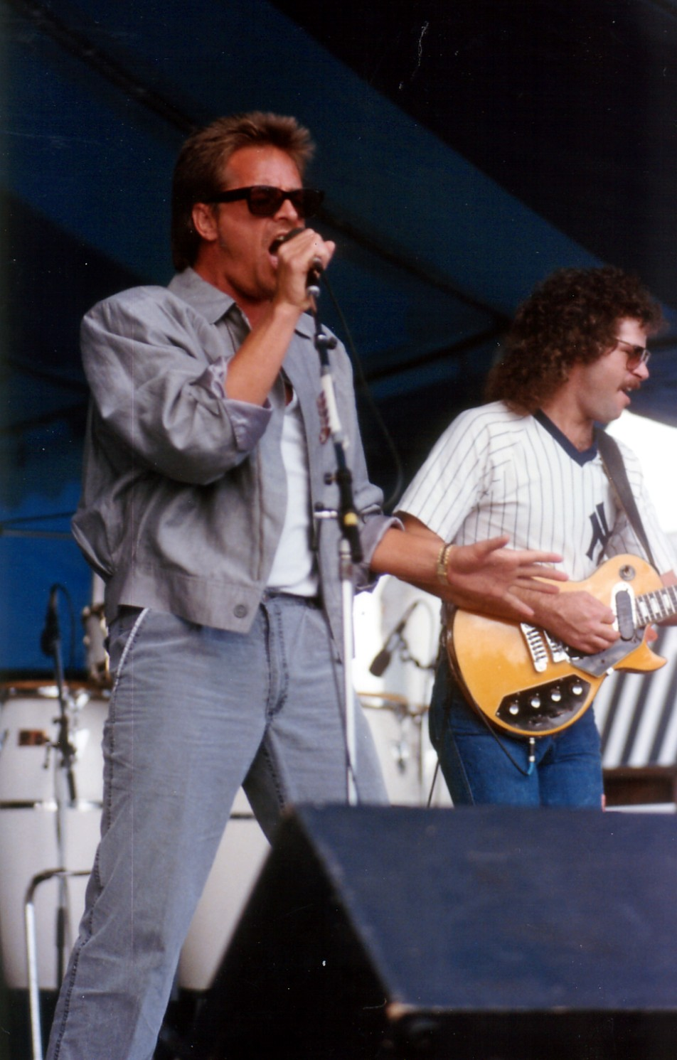 Taken at the Miami Metro Zoo.